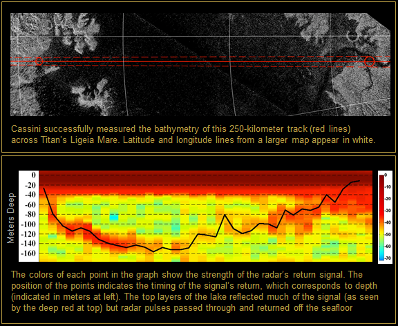 For the first time, scientists have plumbed the depths of an extraterrestrial inland sea.